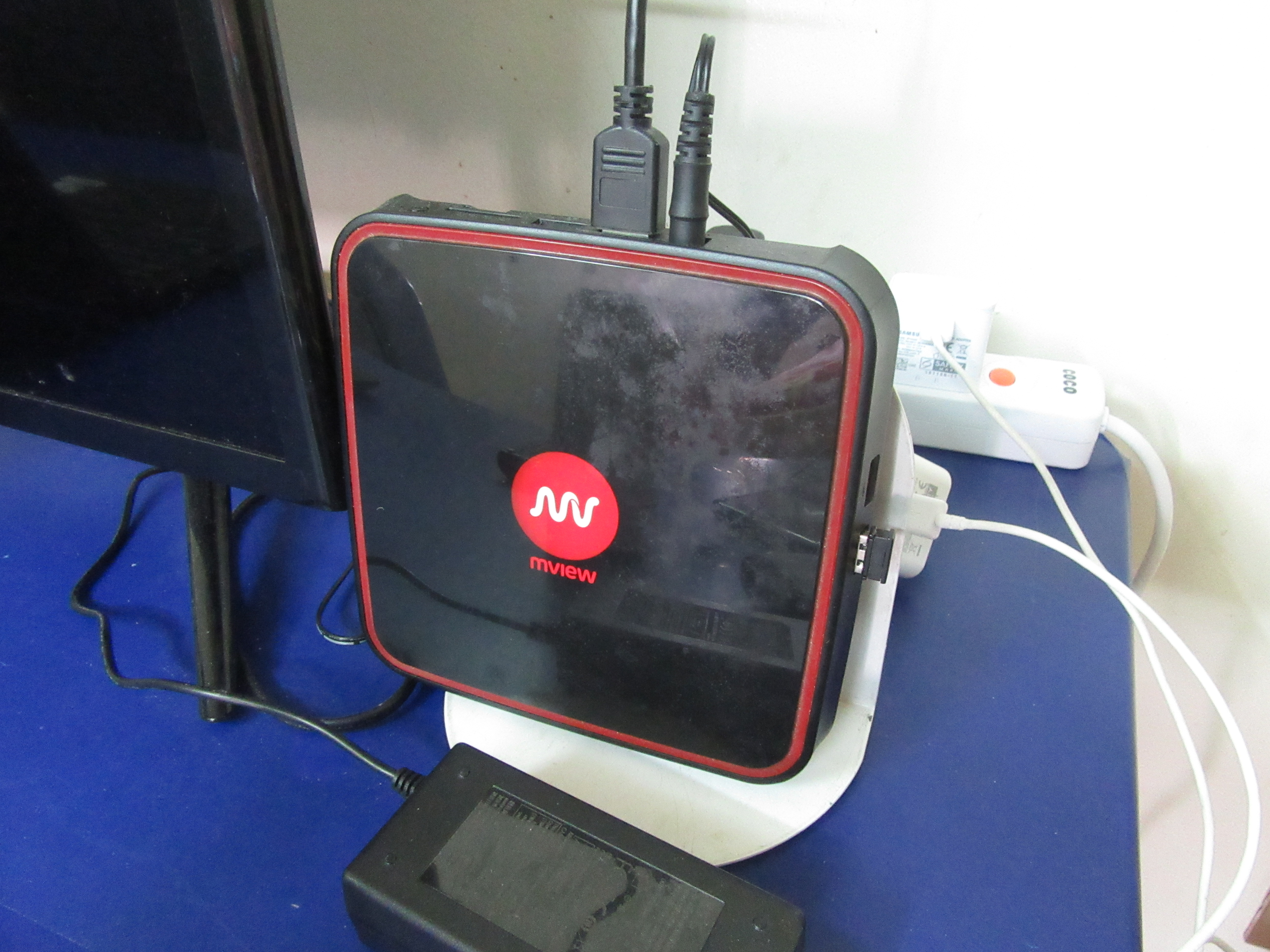 An IPTV device of MVIEW